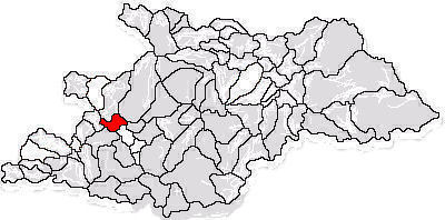 Map of Recea commune in Maramureş County Romania